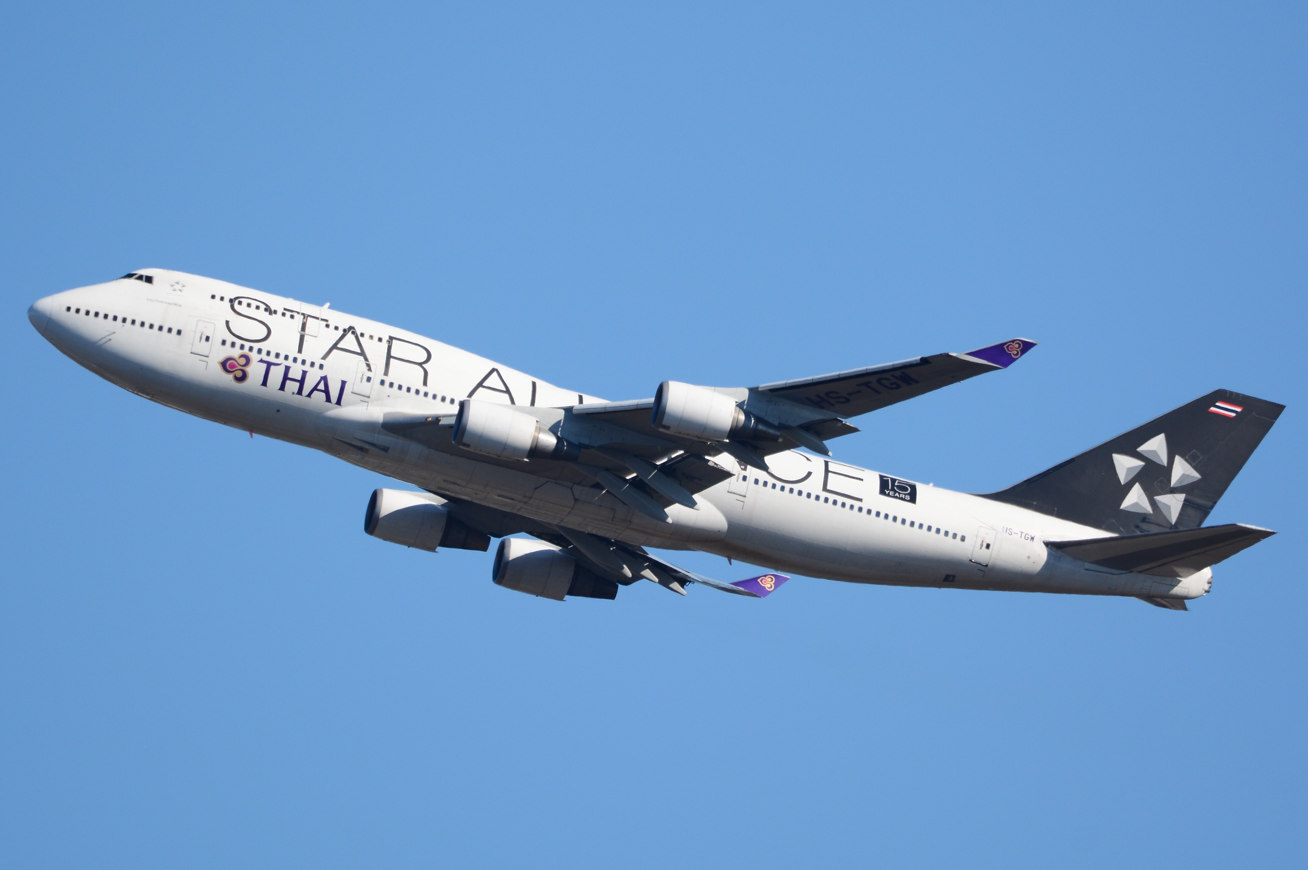 Thai Airways, Boeing 747-400 HS-TGW 'Star Aliance' NRT